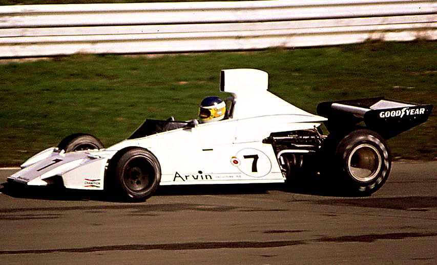 Released under GFDL with the kind permission of the creator of this image, Gerald Swan. The complete set of photos can be seen at the website